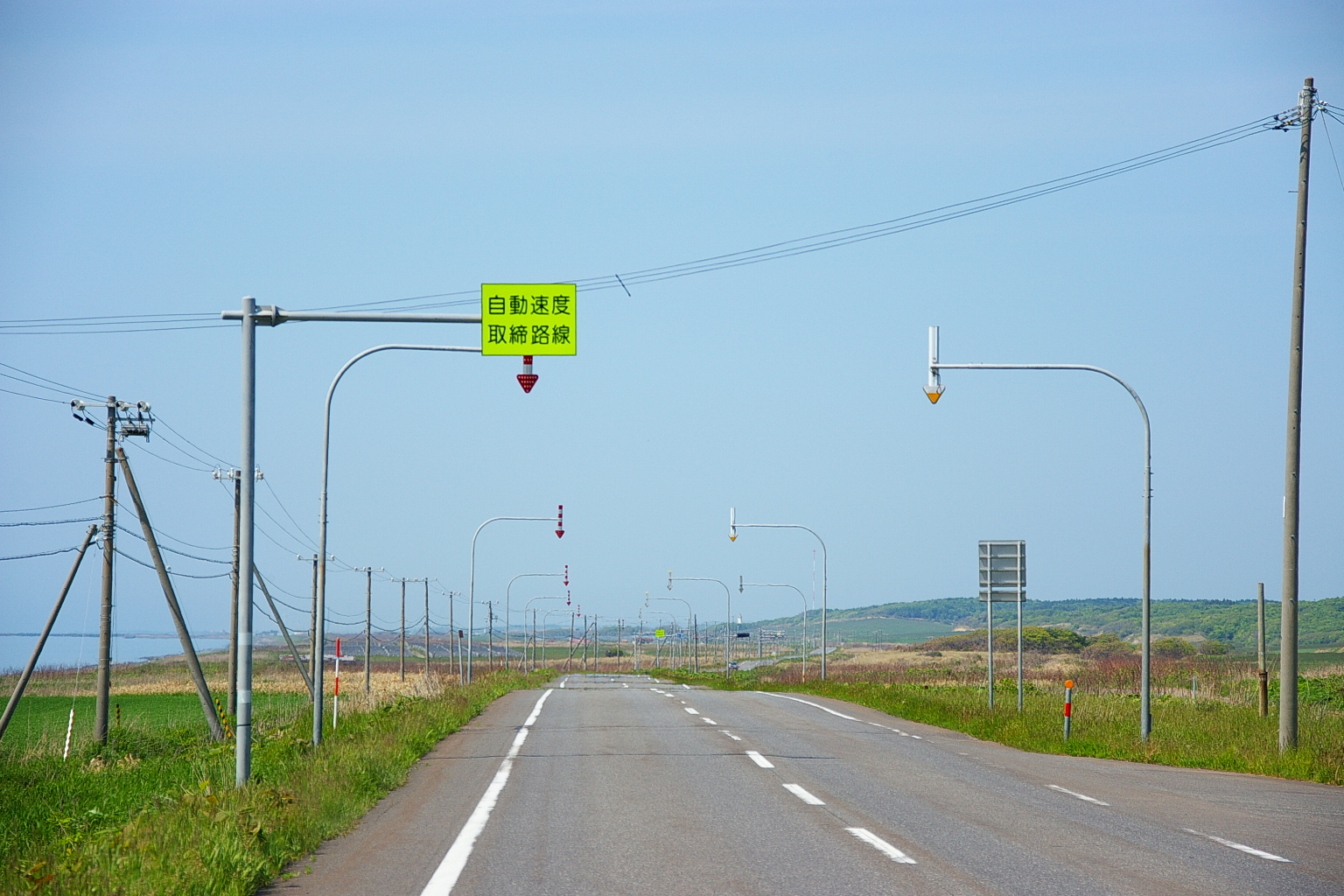 H-system warning signboard in hokkaido.